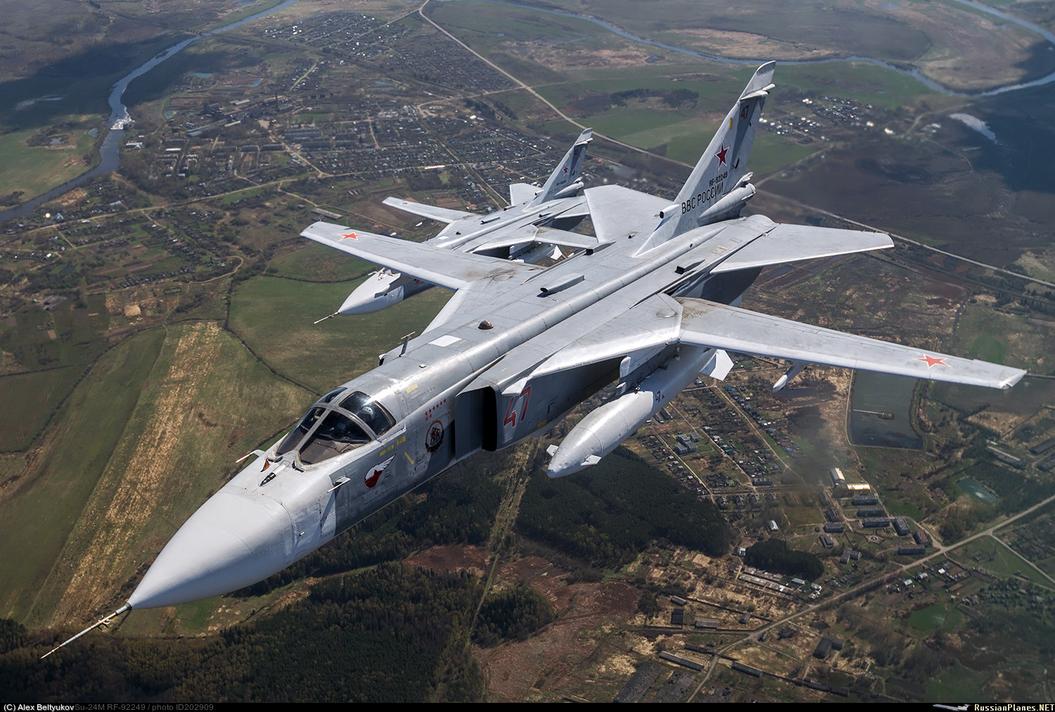 Air-to-air with 2 Russian Air Force Sukhoi Su-24M